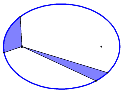 Kepler's second law of planetary motion. Drawn by Stw using Kig and GIMP